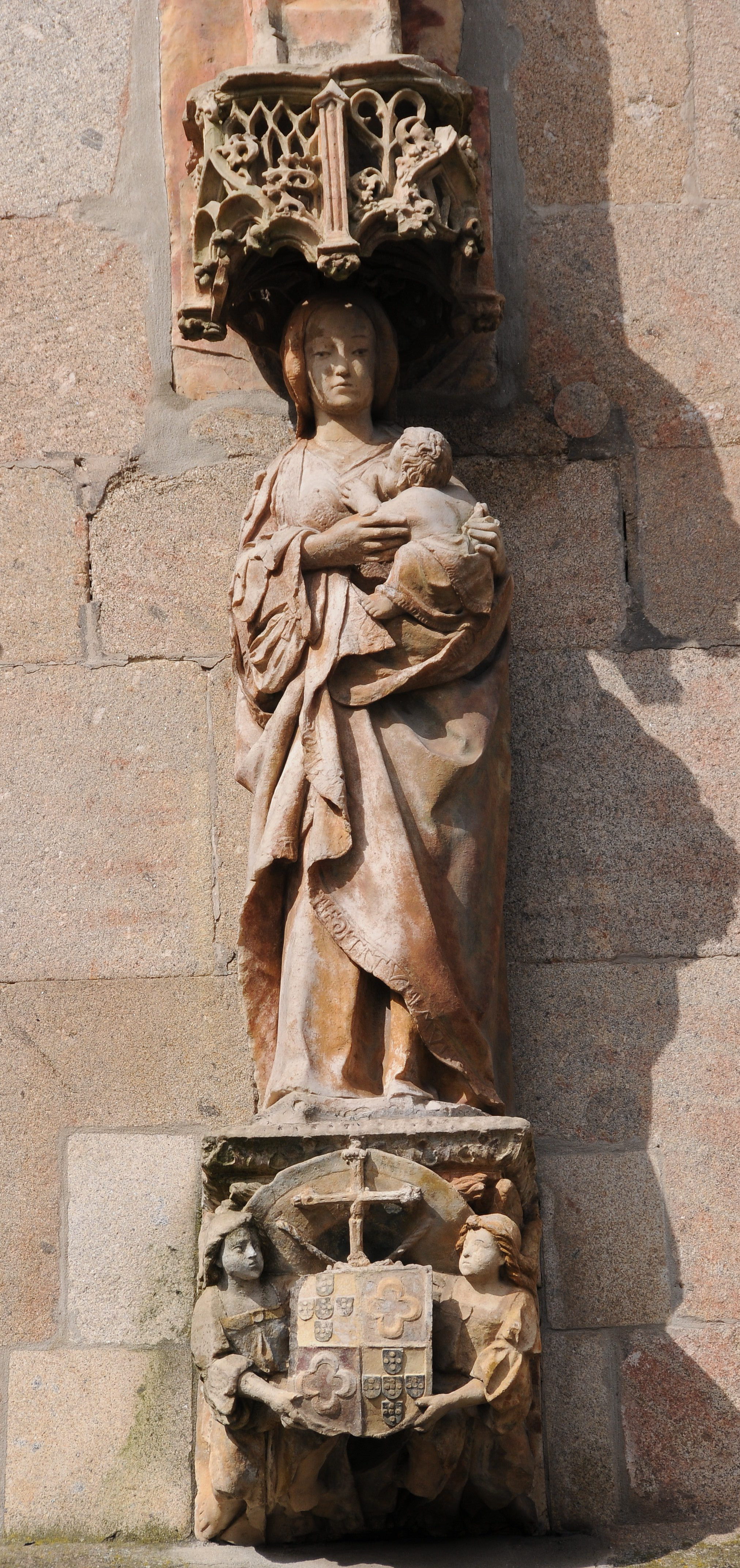 Statue of "Our Lady of the Milk" in Braga Cathedral, Portugal.